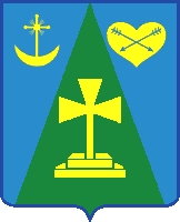 Coats of arms of Romenskij district (Ukraine)